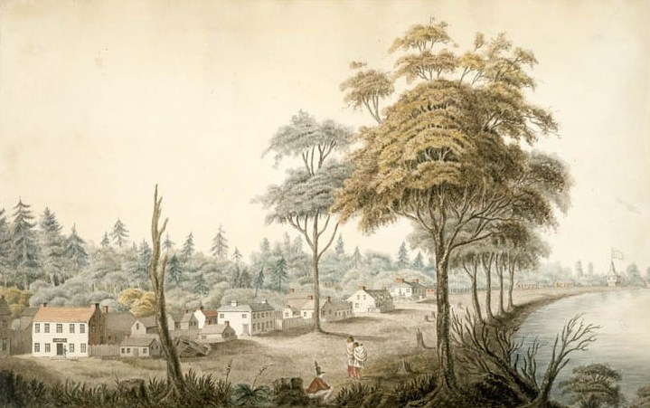 Front Street, York, Upper Canada - 1 watercolour / aquarelle : watercolour, pen and ink over pencil with ink.